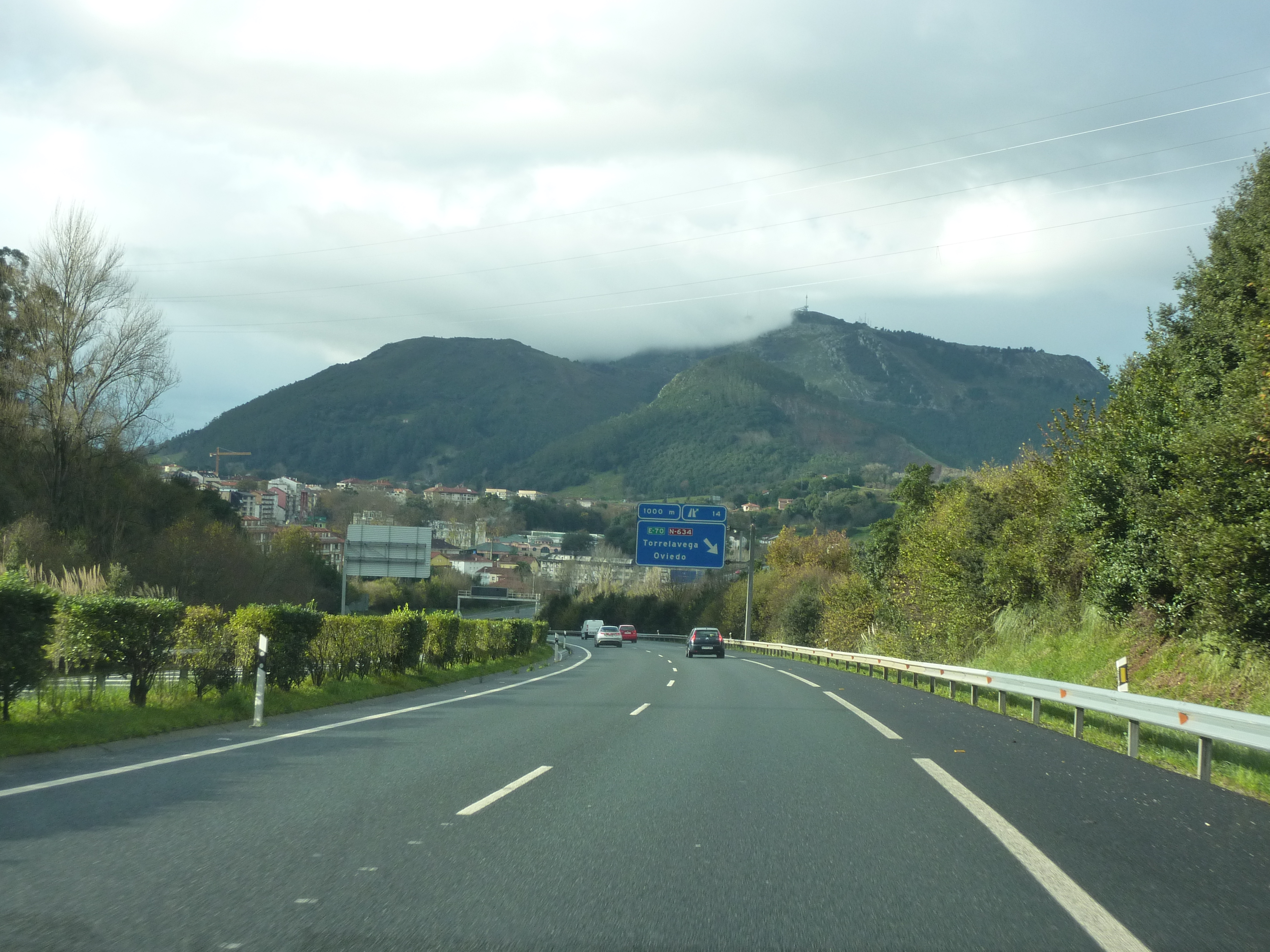 View of the A-8 highway (highway of the Cantabrian) near to the village of Solares (Cantabria, Spain), on the European route E70.